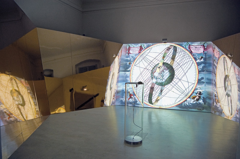 3D-realtime system, projection, 5 channel audio system, golden mirrors, interface